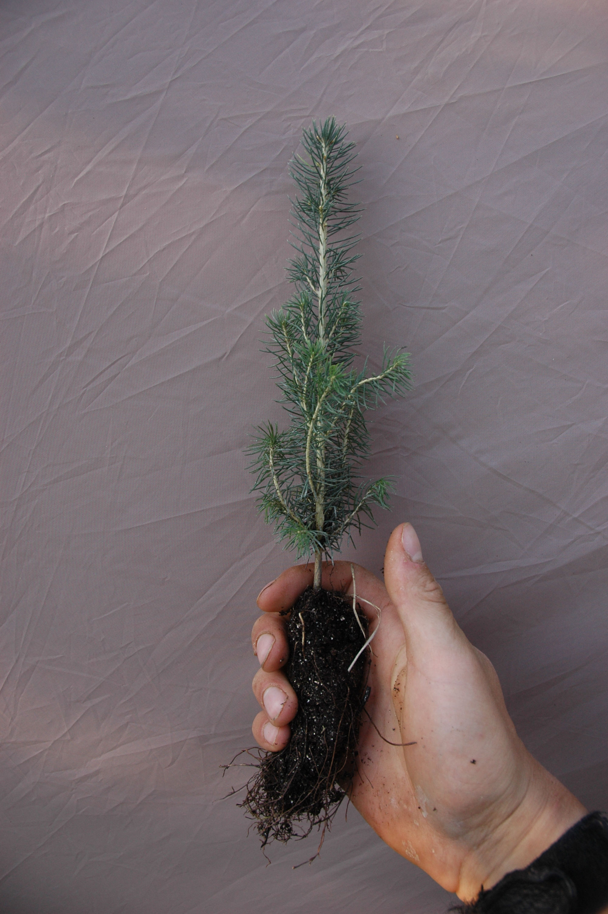 A medium White Spruce plug seedling common in treeplanting operations in Canada